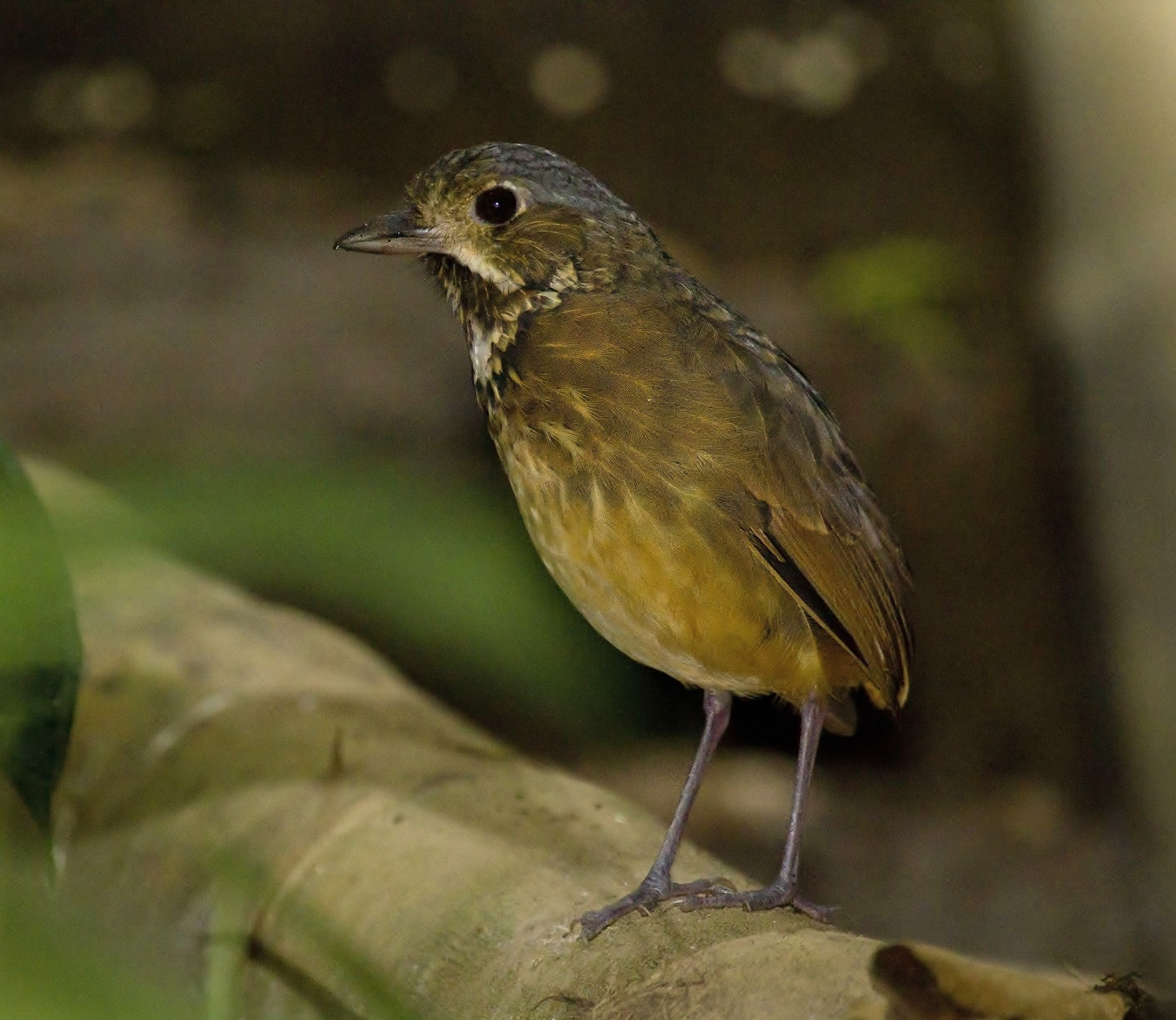 Scaled Antpitta, Bioparque Bonita Farm, Dosquebradas, Risaralda, Colombia